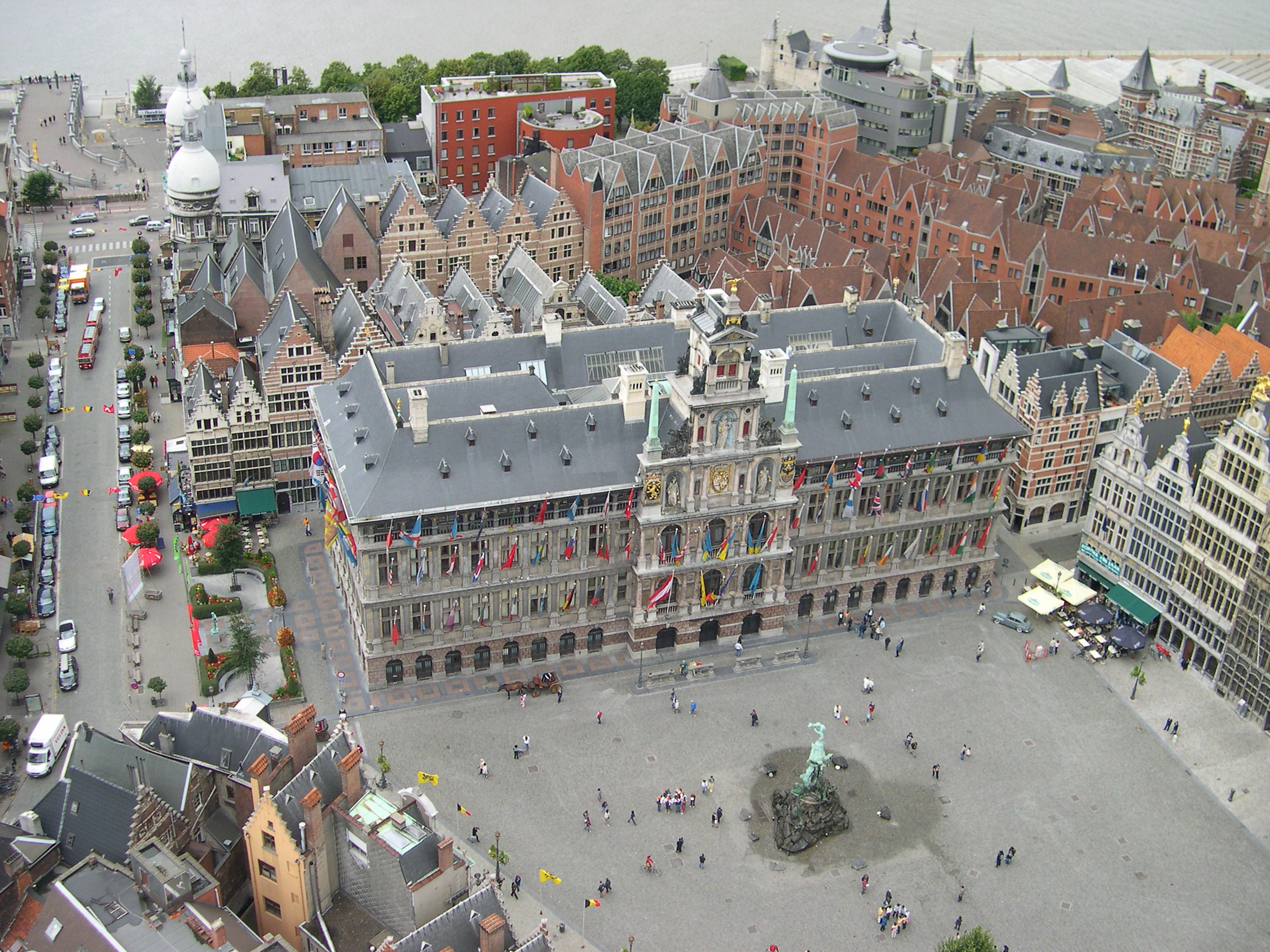 The city hall in Antwerp, as seen from the our lady tower.